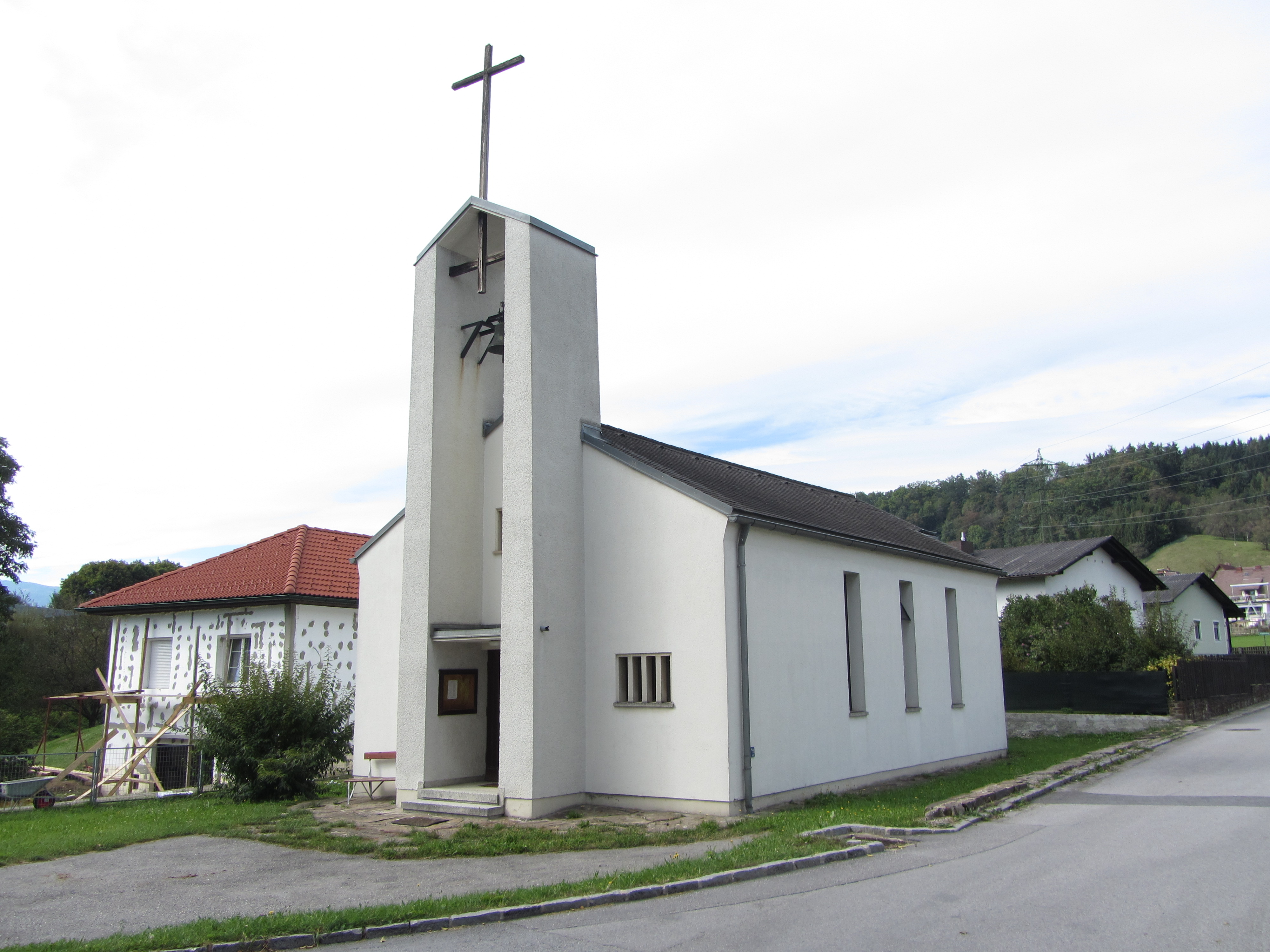 Evang. Filialkirche, Evangelische Michaelskirche A. B.